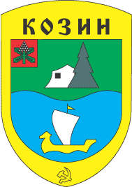 Coat of arms of Kosin, Ukraine